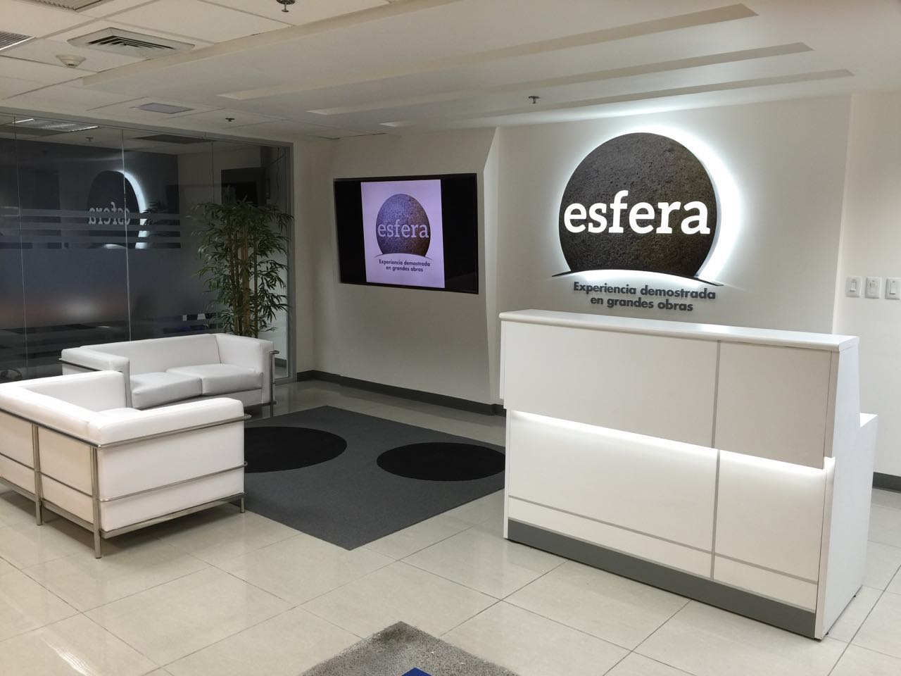 Esfera Bank Branch